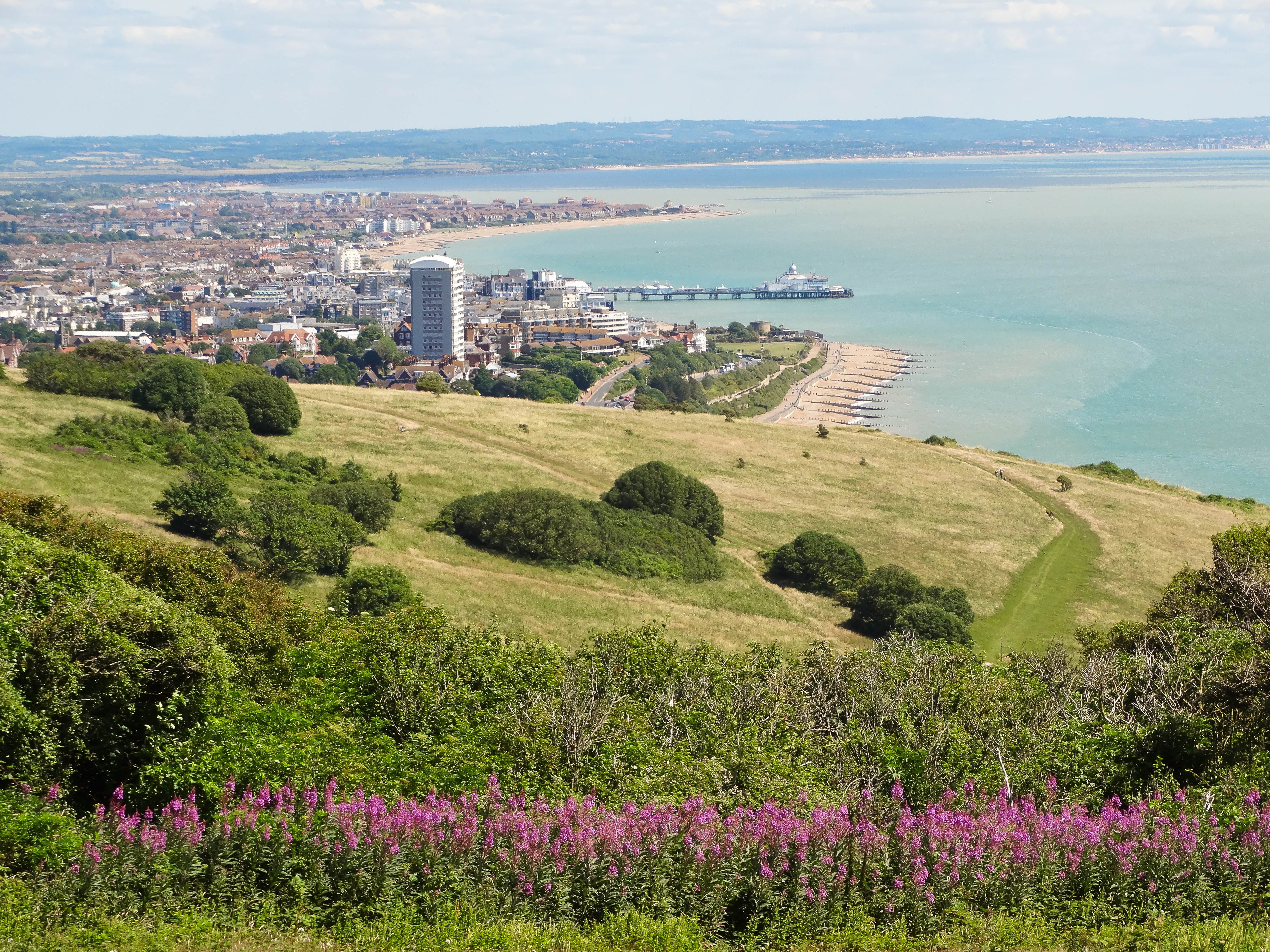 View on Eastbourne from the Beachy head in Southwest